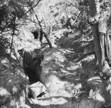 Abandoned Chinese positions in Korea AWM Caption: A patrol of the 3rd Battalion, The Royal Australian Regiment (3RAR), has come across abandoned Chinese or North Korean bunkers, cut into a hillside. They are well camouflaged by the pine trees growing in the hilly terrain. Note the empty cardboard box and other debris at the entrances to the bunkers.